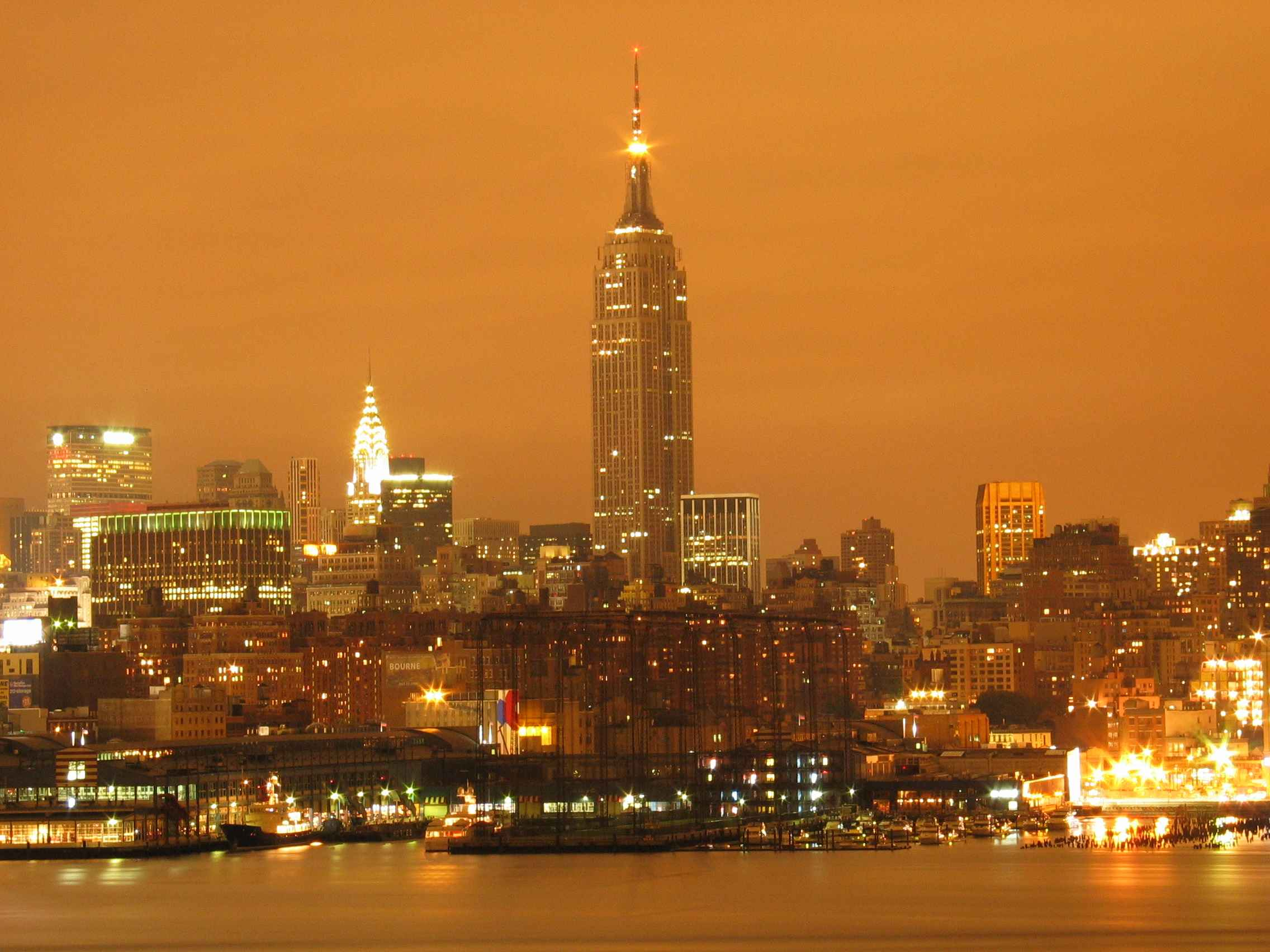 Empire State Building at night.